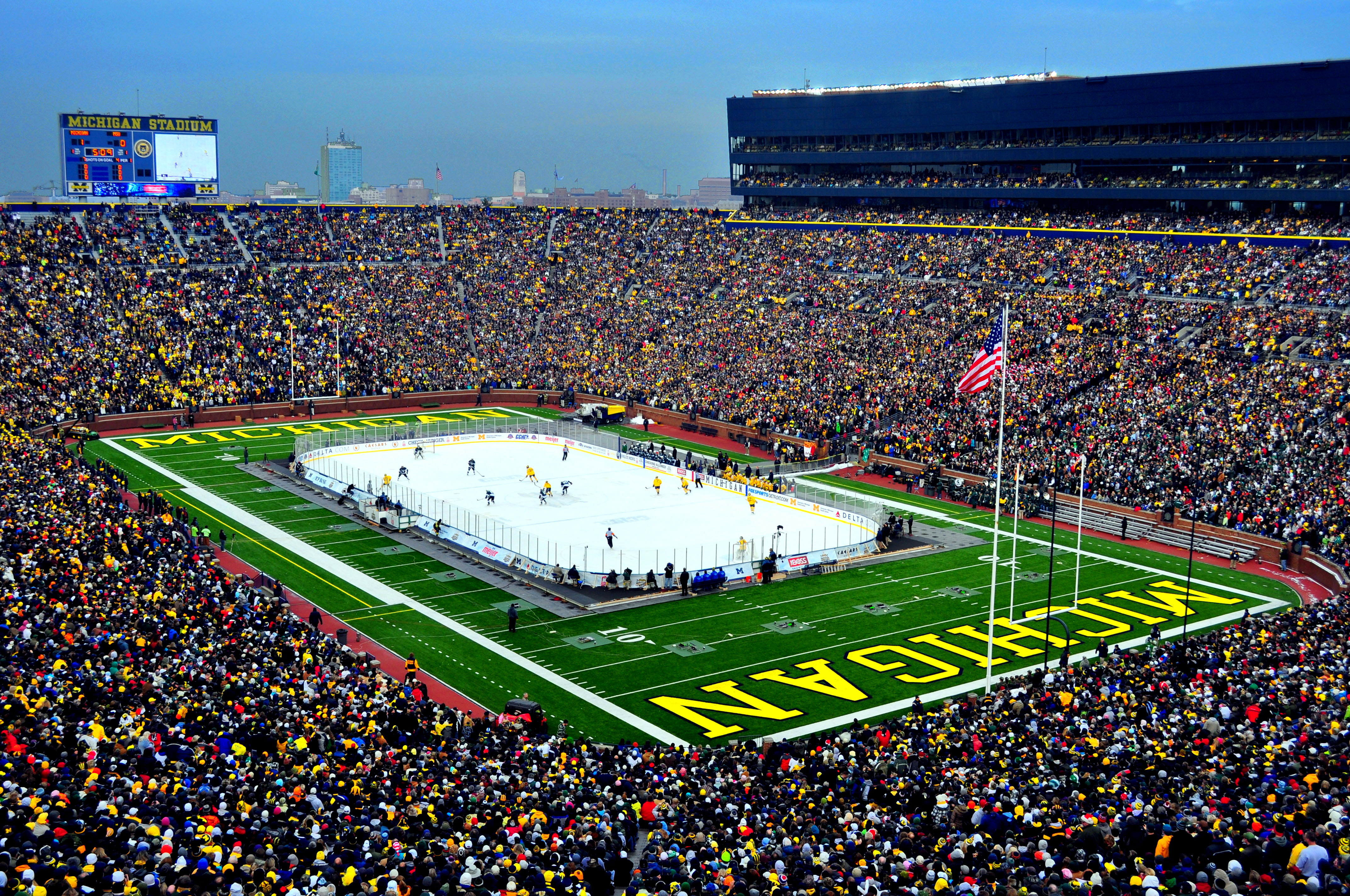 A photo taken from the south western portion of The Big House December 11, 2010 at the Big Chill game. Michigan vs Michigan State